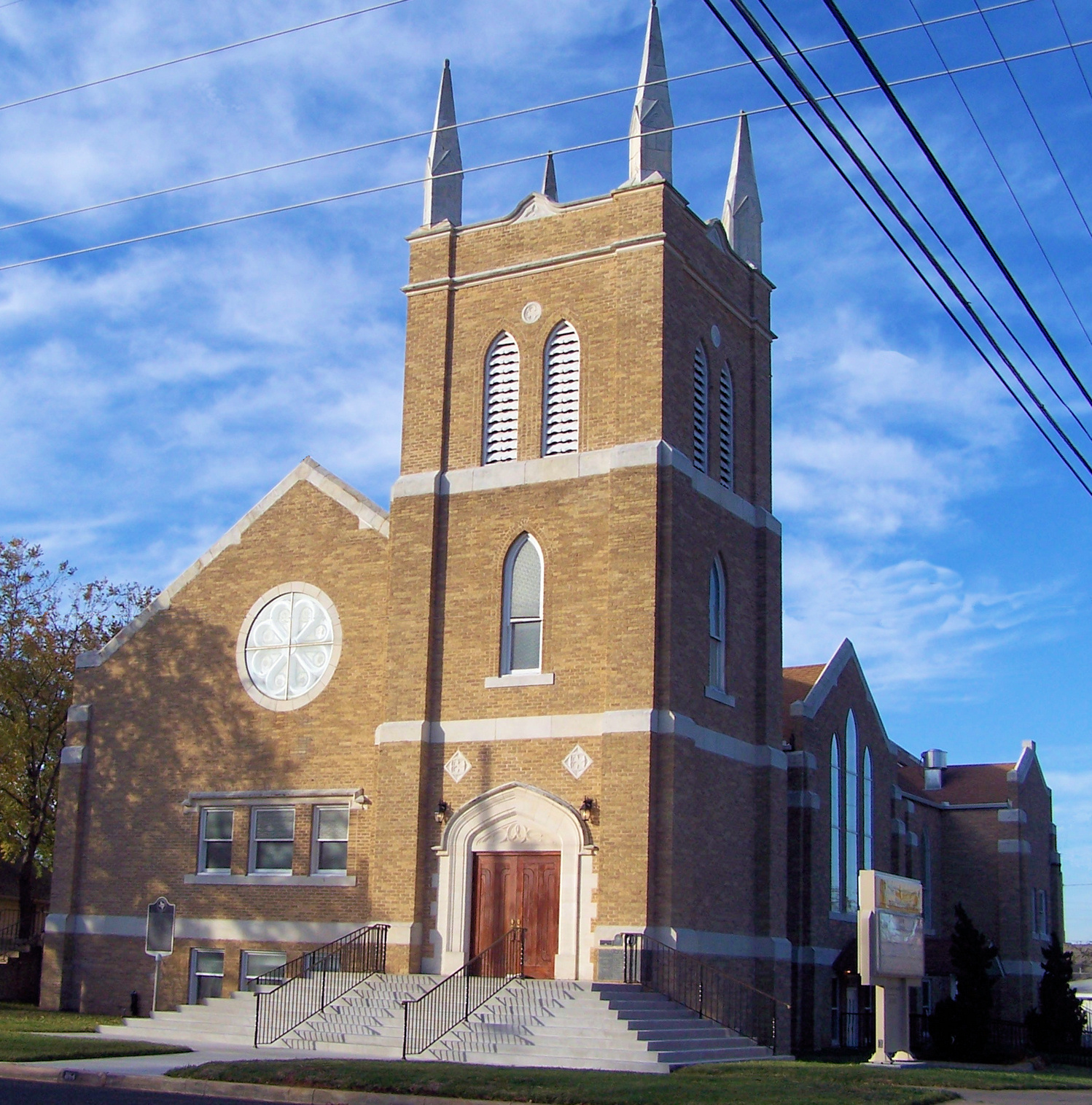 The Wesley United Methodist Church located in Austin, Texas, United States was built in 1929. It was listed on the National Register of historic places on September 17, 1985.